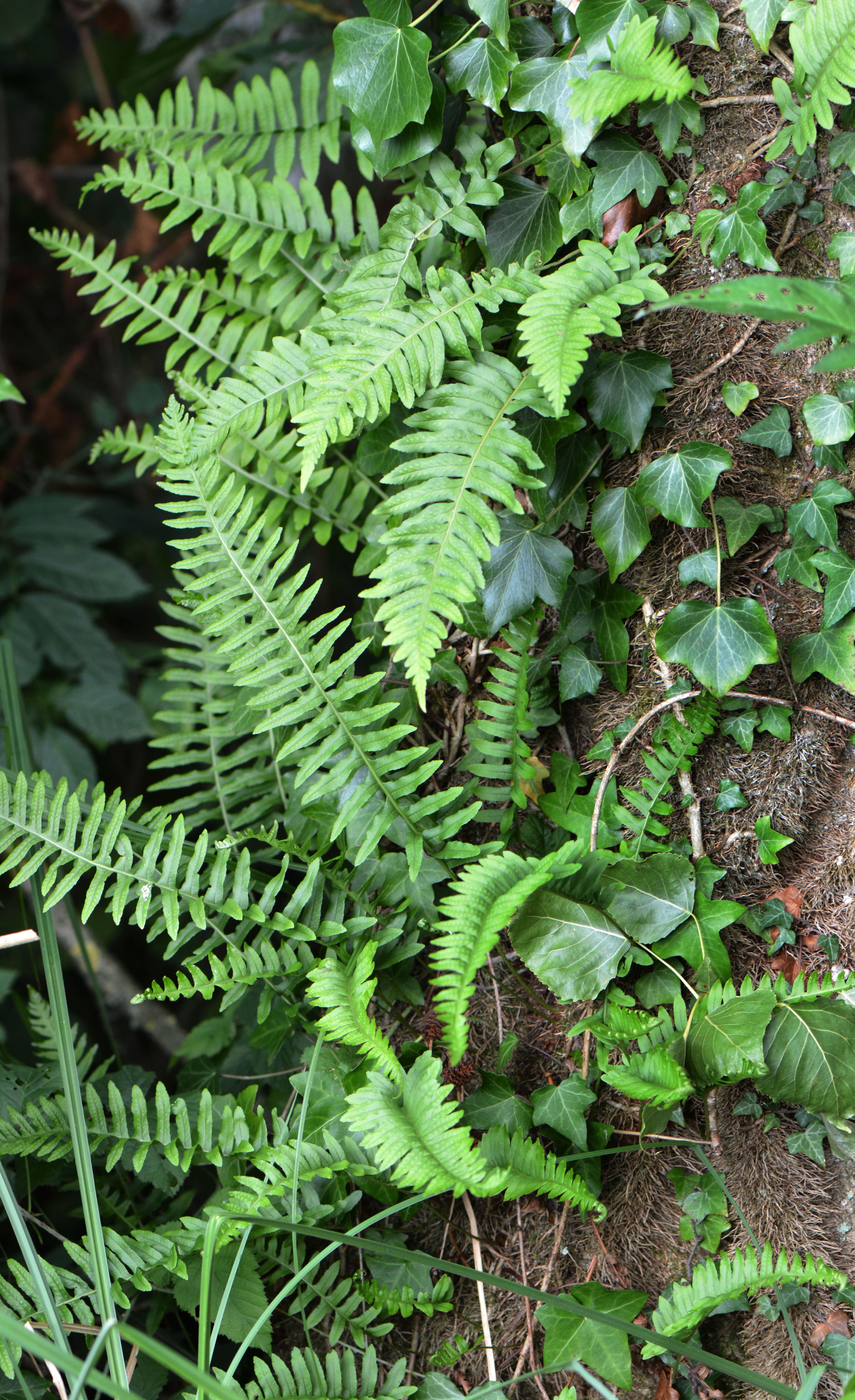 Polypodium vulgare in epiphytic situation (hung on ivy, on the vertical part of a trunk), in the Brimeux marsh